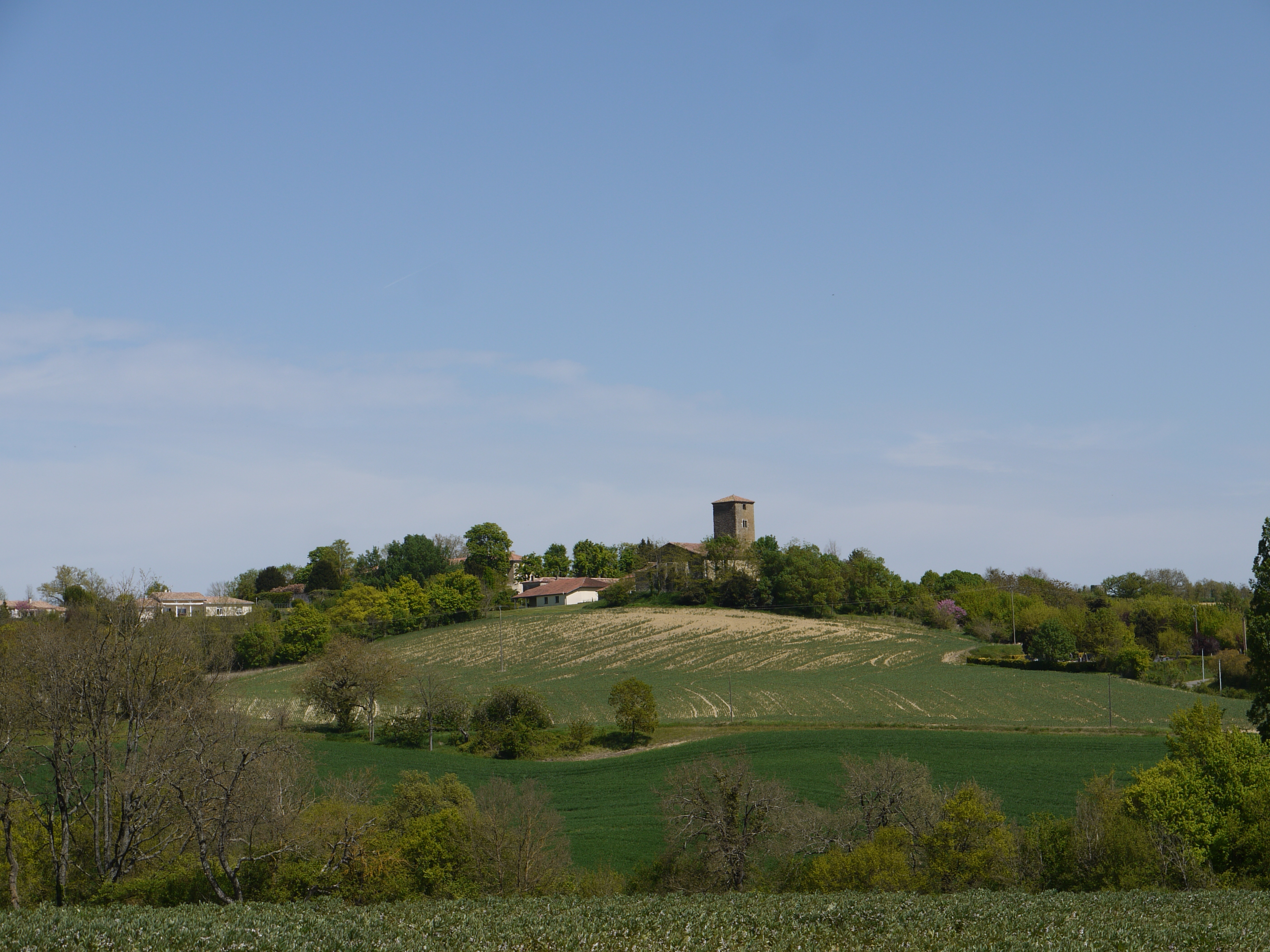 View of Lahitte